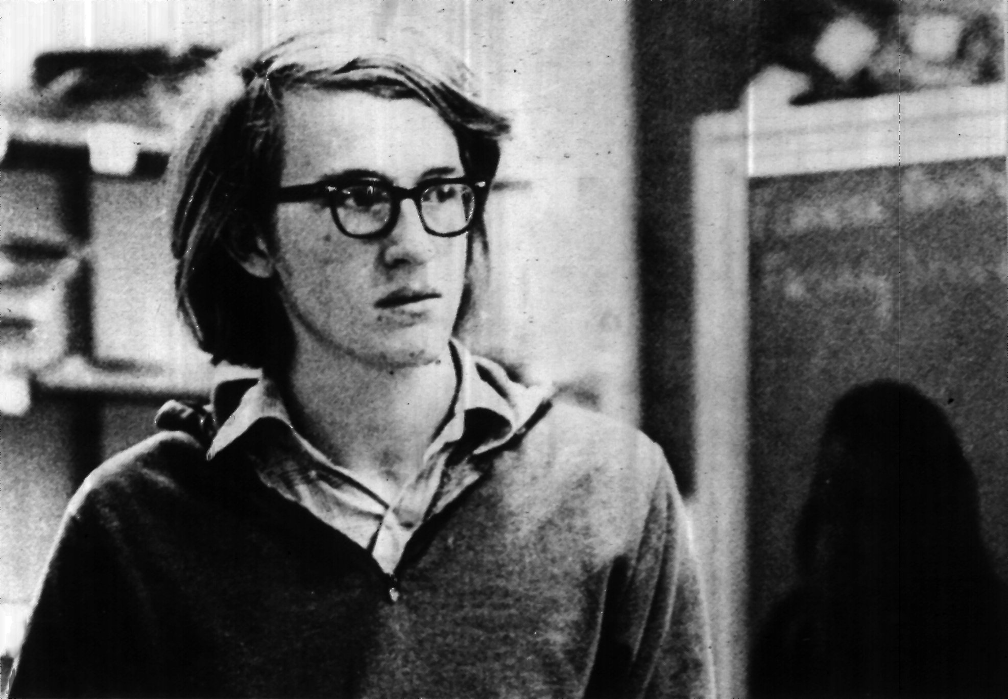 Tom Toles on the staff of the University at Buffalo's Spectrum newspaper, from the 1970 Buffalonian (UB student yearbook)